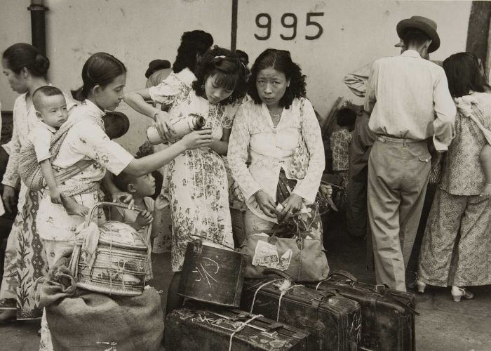 Chinese women with their luggage at the quay. A native Indonesian nanny, carrying a baby, is trying to make a young girl drink.